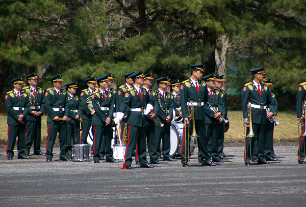 Taken by los688,8-Apr-2007,JGSDF Camp-Utsunomiya.12th band.PD-self. ja:2007年4月8日、投稿者撮影。陸上自衛隊宇都宮駐屯地創立57周年記念行事。第12音楽隊。